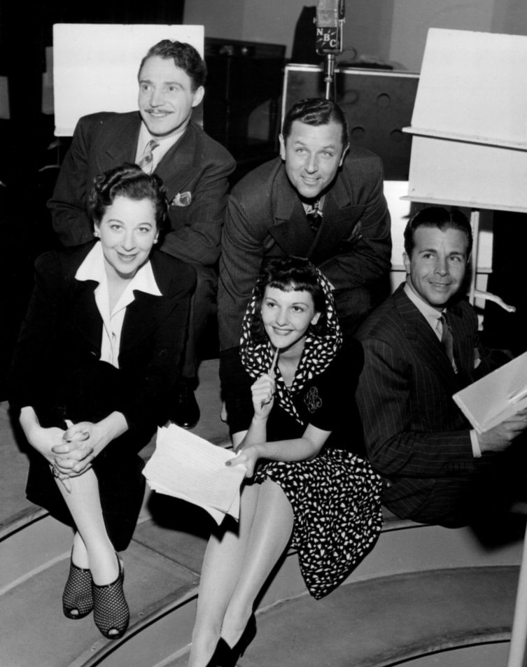 Cast of the NBC Radio "Good News" radio program in 1940. The show was a combination of music and comedy. The men, from left: Hanley Stafford (played "Daddy" to Baby Snooks), Warren Hull, Dick Powell. The women, from left: Fanny Brice (as Baby Snooks), Mary Martin.